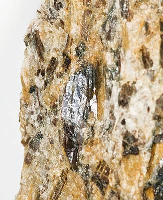 Sillimanite Locality: Yantic Falls, Norwich, New London County, Connecticut, USA (Locality at ) Size: 11.4 x 6.2 x 4.6 cm. Flat-lying, lustrous crystals of sillimanite (to 3 cm) embedded in schist matrix, a rich specimen from a historic old locality. Ex. Philadelphia Academy of Sciences Collection.